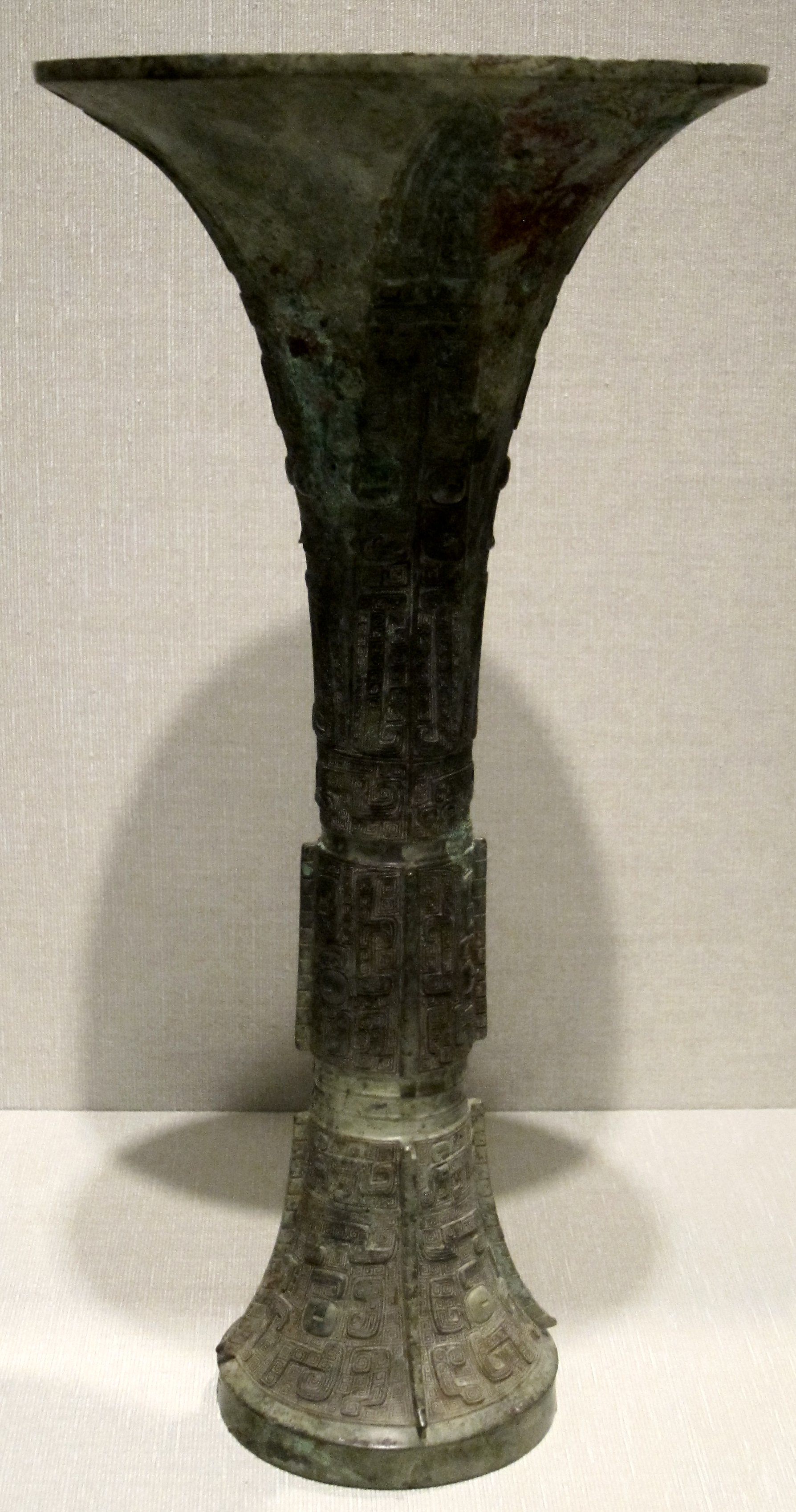 Wine cup (gu), China, Shang dynasty, bronze, Honolulu Academy of Arts